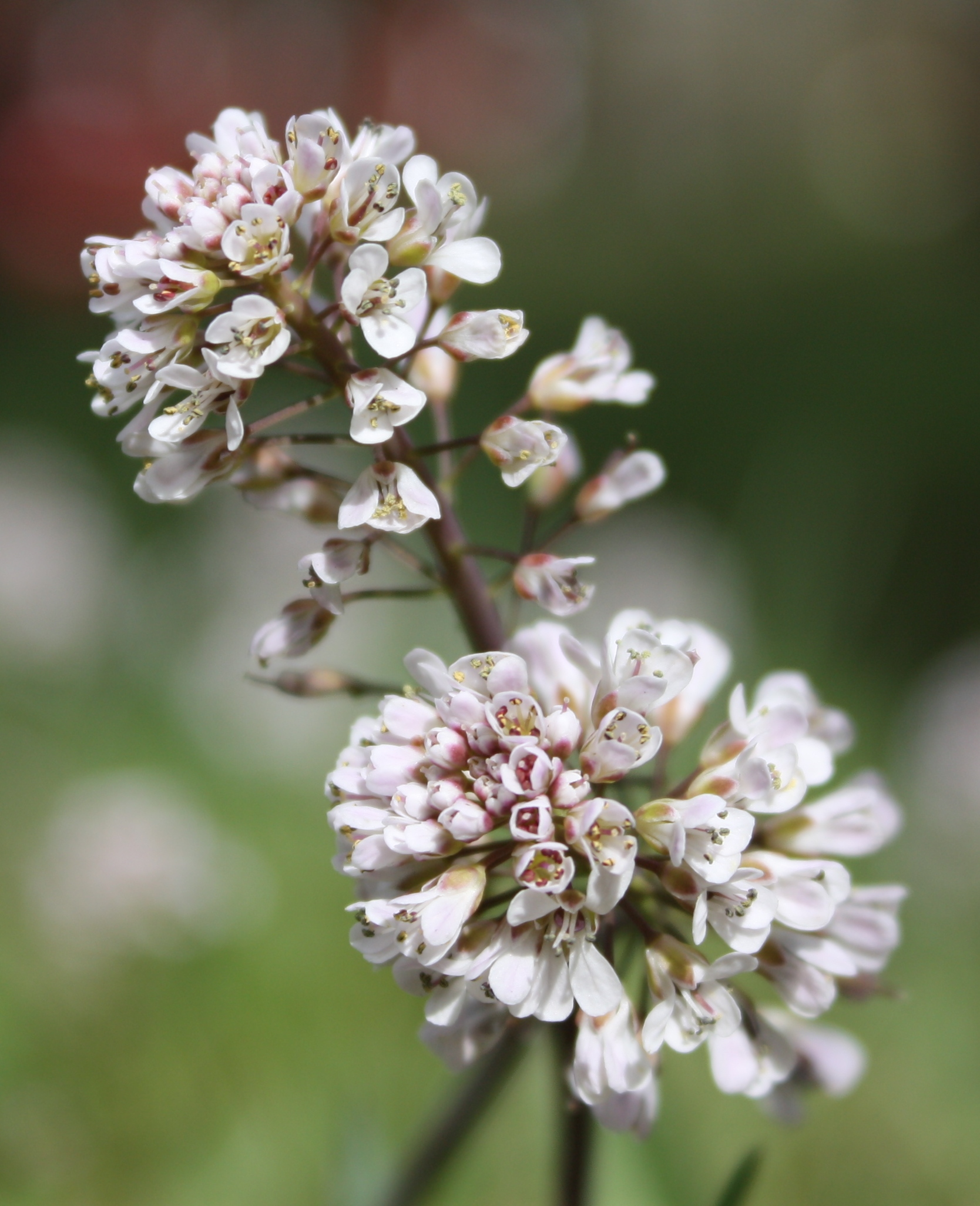 Alpine Pennycress, Thlaspi alpestre - Kerava, Finland 2009